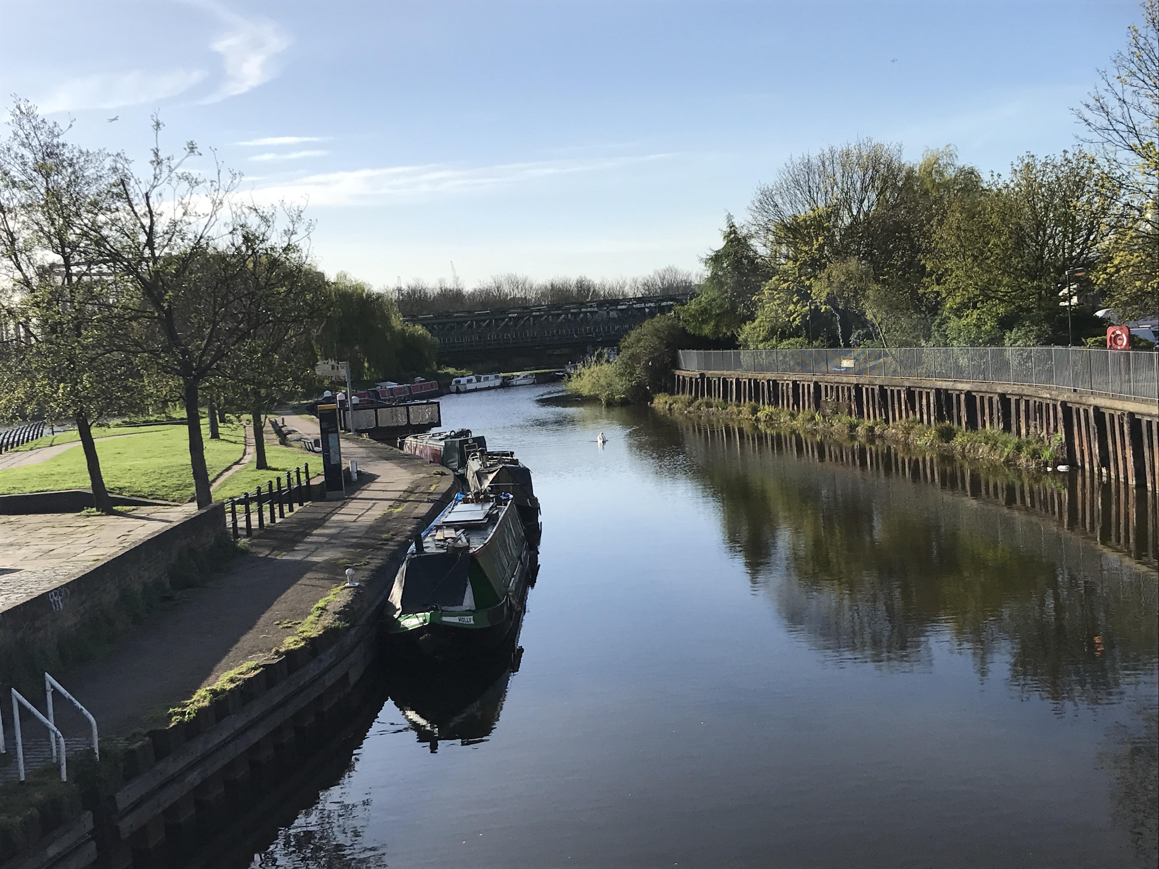 View of canal boats and the River Lea at Three Mills Lane